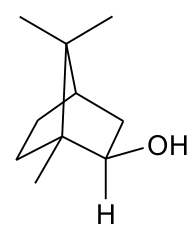 Isoborneol